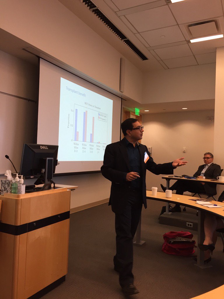 Sridhar Tayur presented at the 2016 Johns Hopkins Symposium on Healthcare Operations